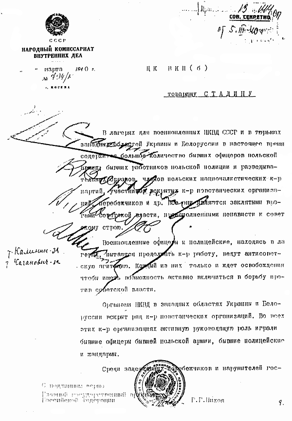 The accepted proposal of Lavrentiy Beria to execute former Polish army and police officers in NKVD prisoner of war camps and prisons, 5 March 1940